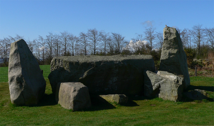 Easter Aquhorthies Stone Circle, Aberdeenshire, Scotland